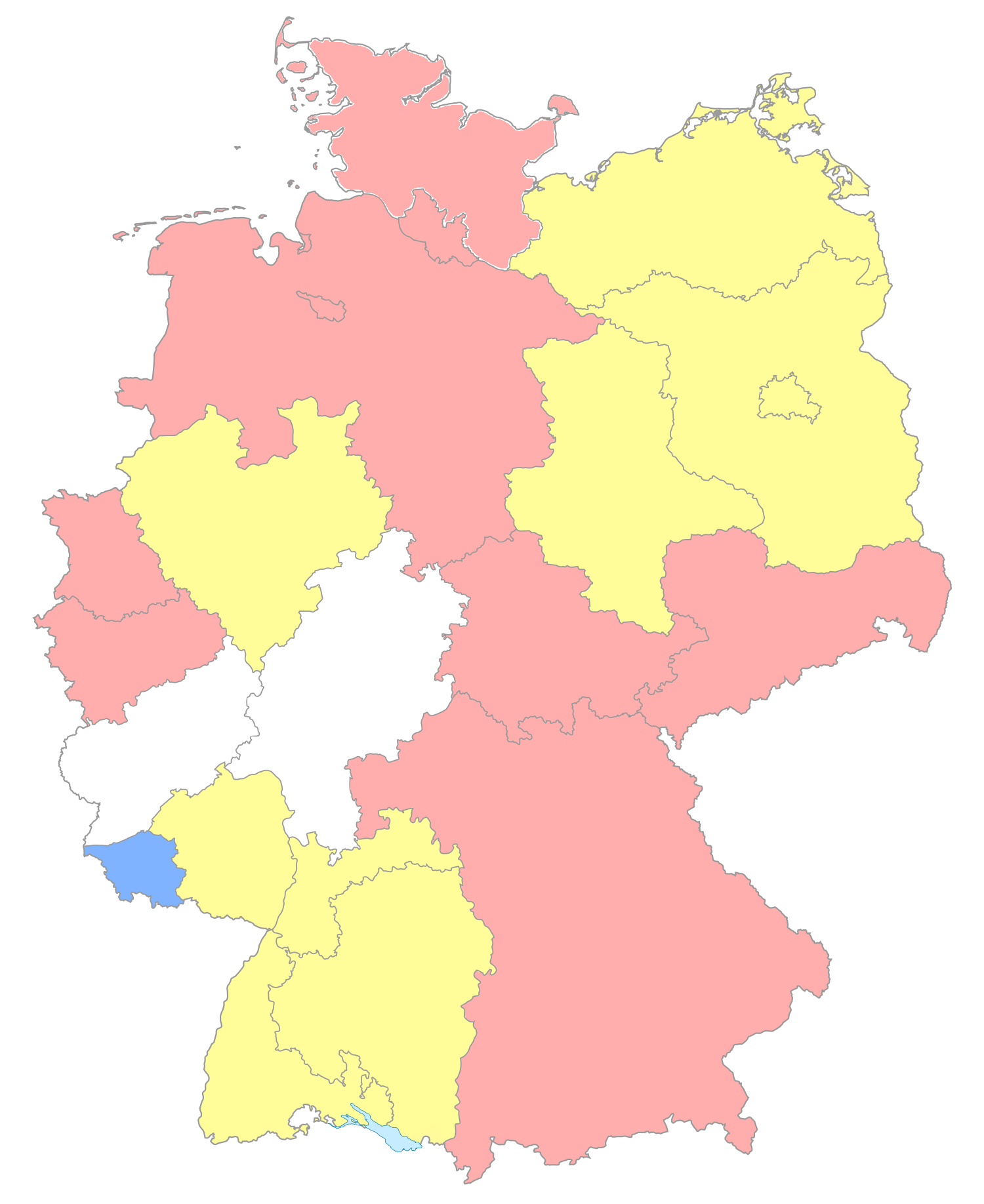 The German association football Landesligas by league tier: Tier six (red) seven (yellow) and eight (blue) leagues. White denotes areas without Landesligas.